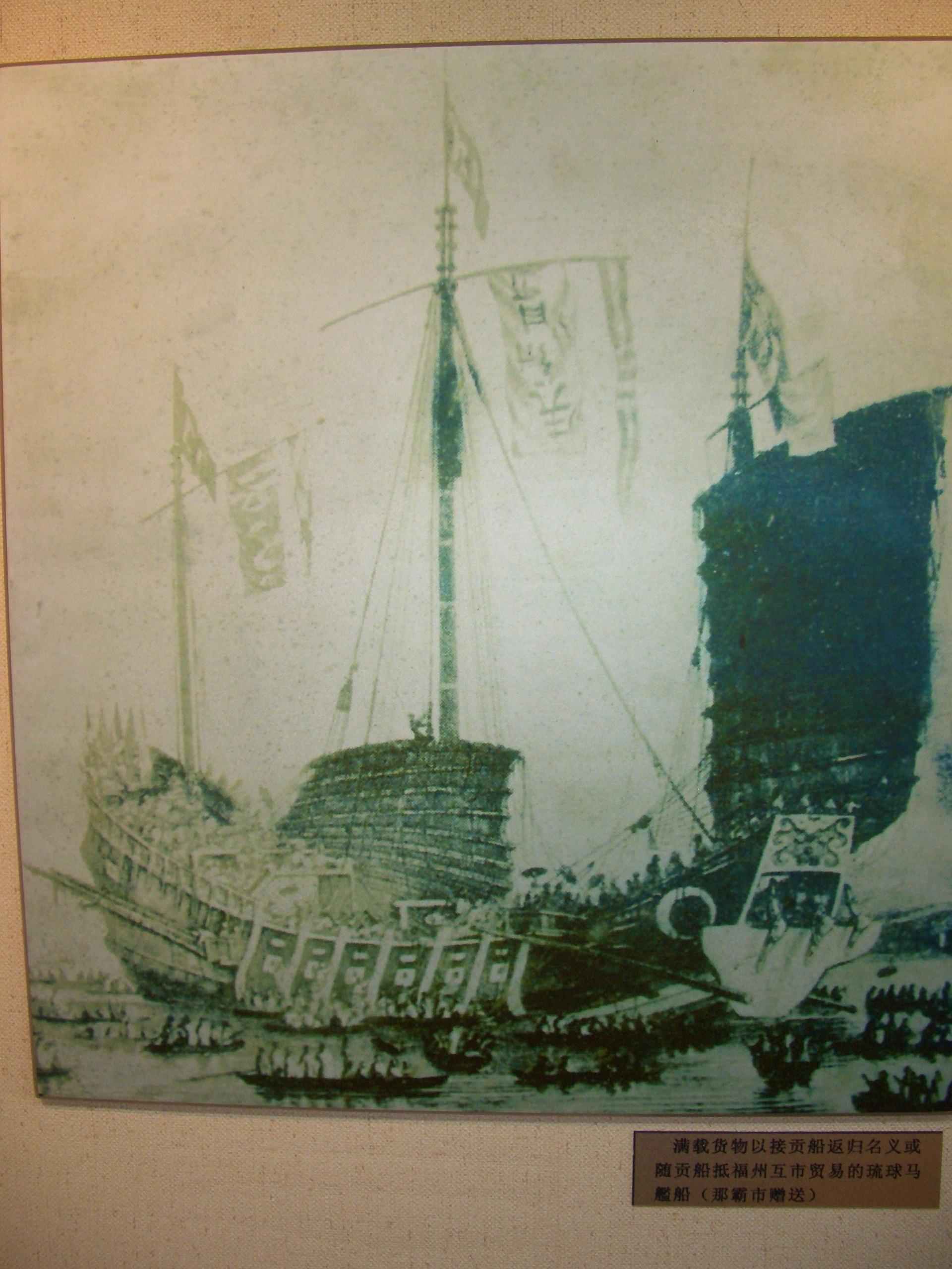 ship of Ryukyu